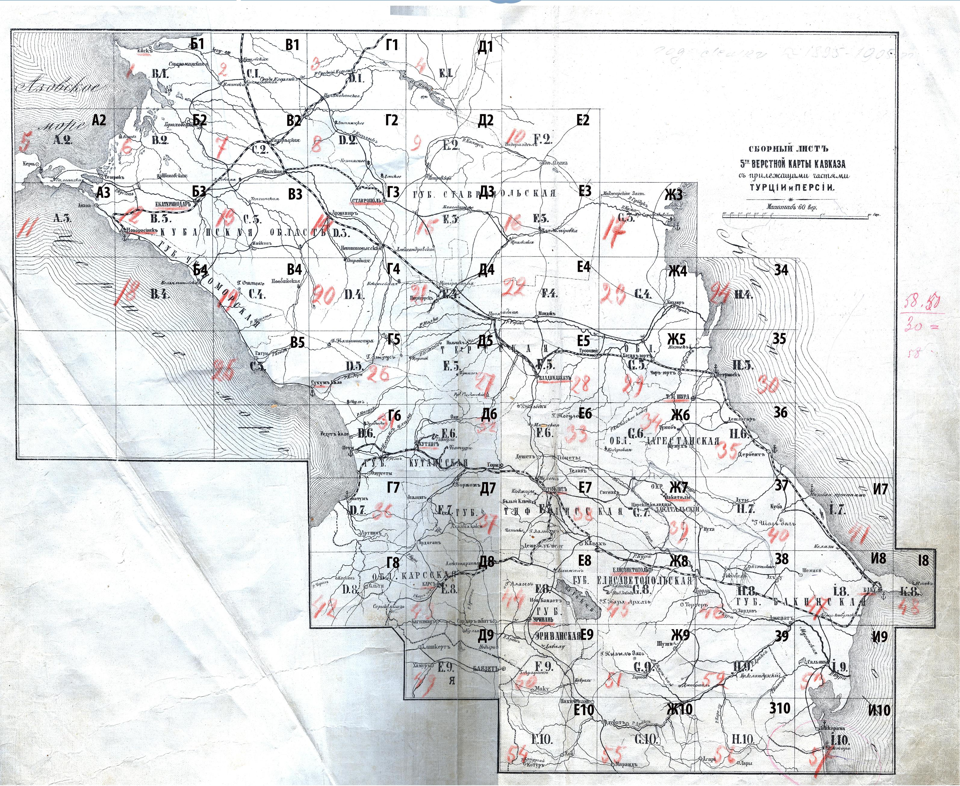 Map of the Caucasus 5 verst